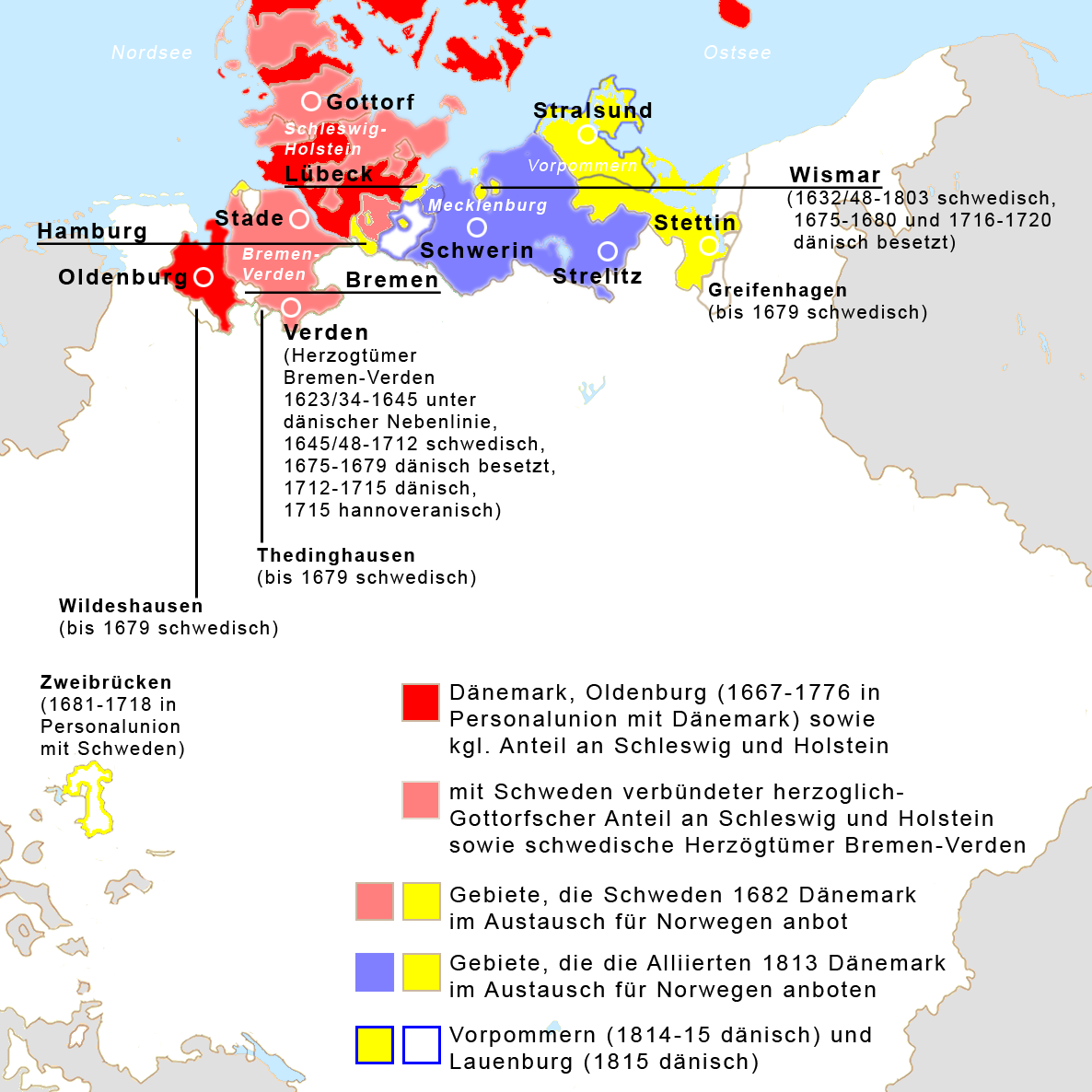 Denmark (dark red) and its territorial interests in Northern Germany between 1667 (union with Oldenburg) and 1815 (addition of Lauenburg), including the Danish occupation of Swedish terrorities during the Northern wars (1675/79, 1712/15, light red) and Swedish offers in exchange for Norway (1682, 1813, yellow)